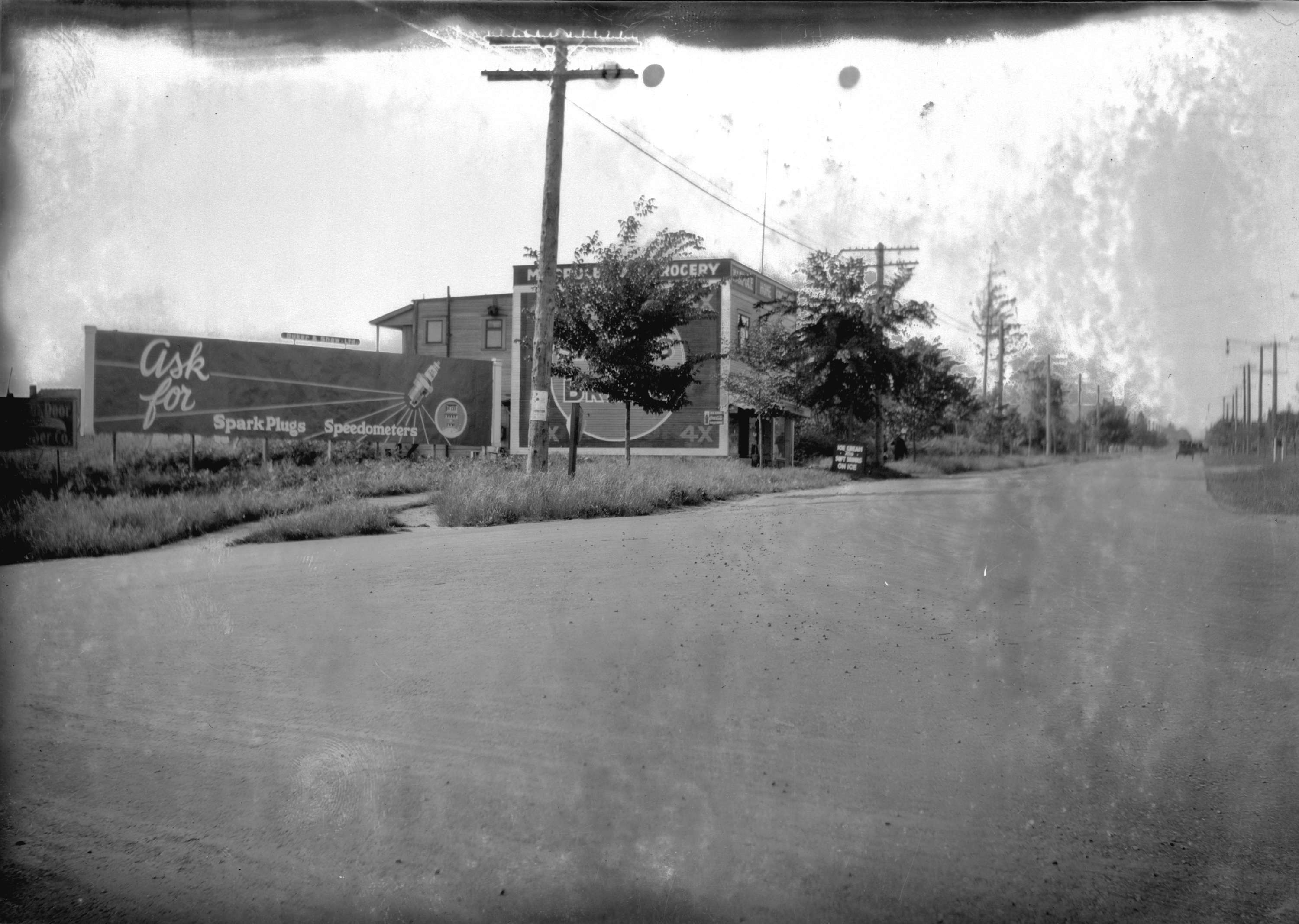 Taken for Duker and Shaw Ltd., billboard advertising, A.C. spark plug billboard on Marpole home grocery store [possibly 64th and Granville], Vancouver.